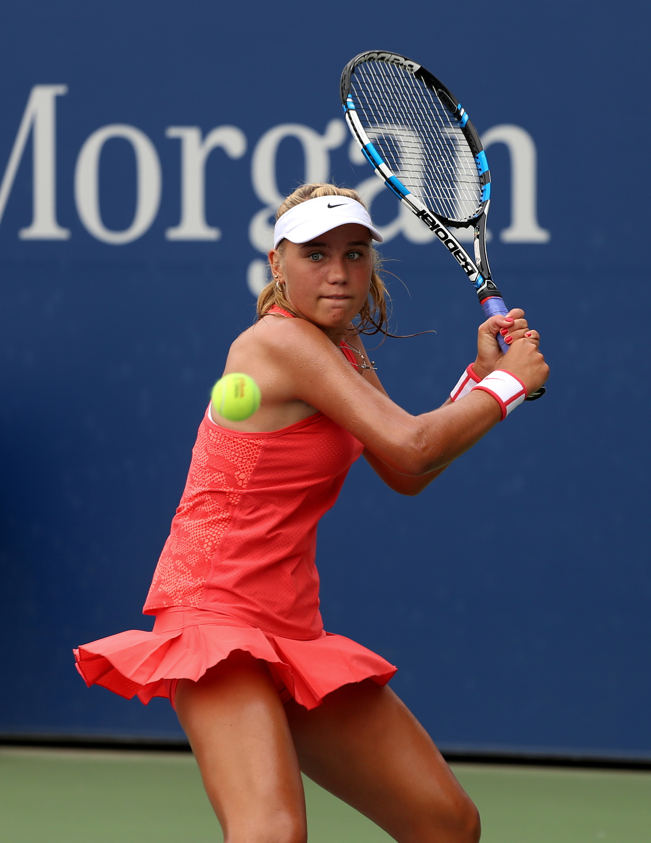 Sofia Kenin at the 2015 US Junior Open